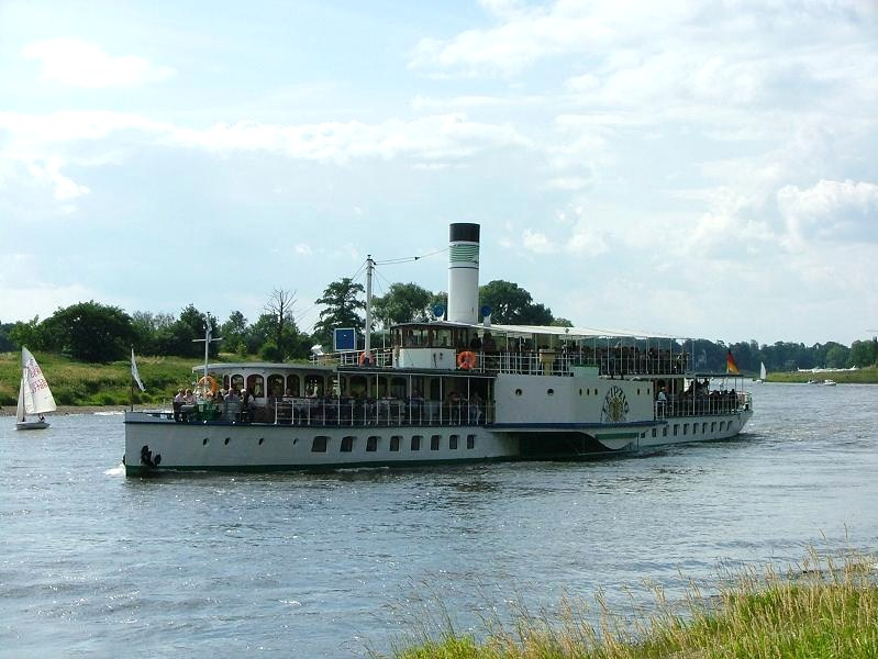 SS Leipzig in Dresden (Elbe).